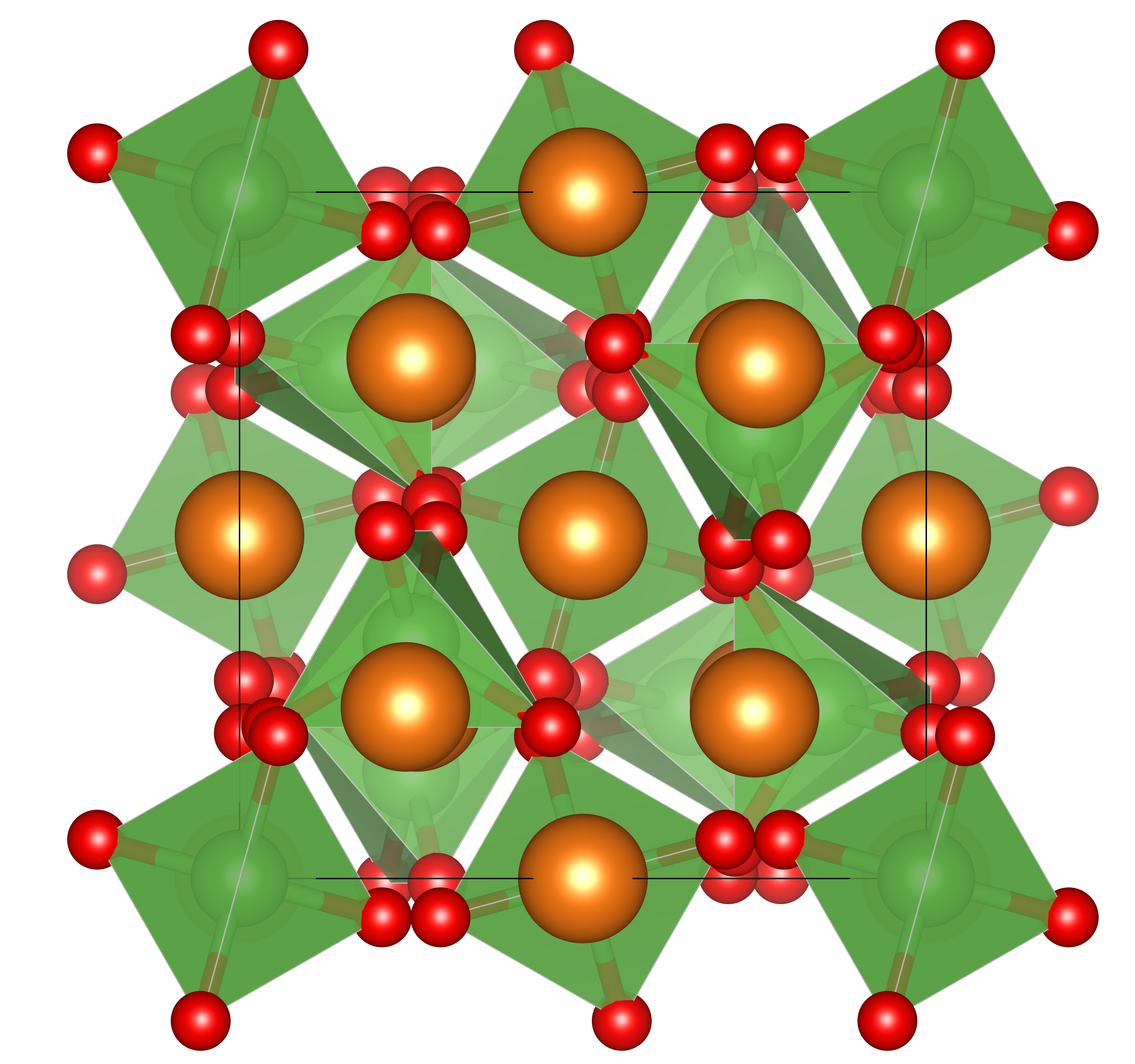 Unit cell of magnesium arsenate (Mg3(VO4)2), c side mapped. Created with VESTA. Source of crystal structure